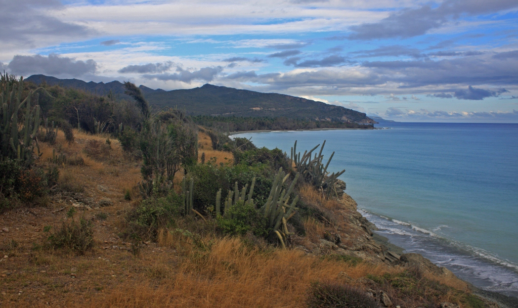 A spectacular road to travel on. Travelling down out of the wet rainforest covered & misty mountains around Baracoa, you emerge onto a dry scrubland coast with agave & cactus plants.